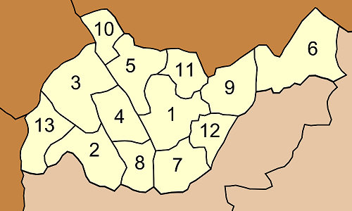 Map of Bang Konthi district, Samut Songkhram province, with the communes (tambon) numbered Kradangnga (กระดังงา) Bang Sakae (บางสะแก) Bang Yi Rong (บางยี่รงค์) Rong Hip (โรงหีบ) Bang Khonthi (บางคนที) Don Ma Nora (ดอนมะโนรา) Bang Phrom (บางพรม) Bang Kung (บางกุ้ง) Chompluak (จอมปลวก) Bang Nok Khwaek (บางนกแขวก) Yai Phaeng (ยายแพง) Bang Krabue (บางกระบือ) Ban Pramot (บ้านปราโมทย์)